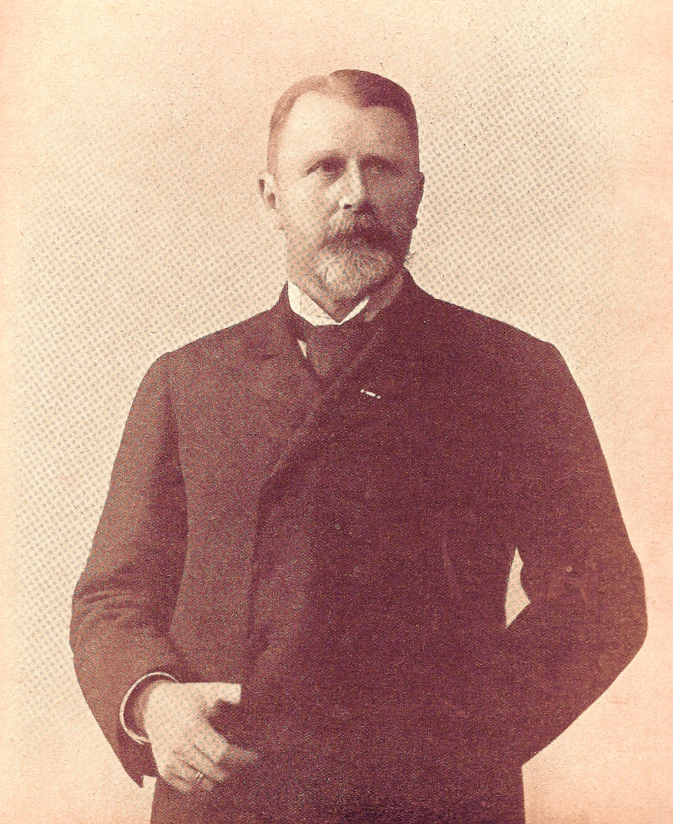 Mr. W.k.F.P. van Bylandt